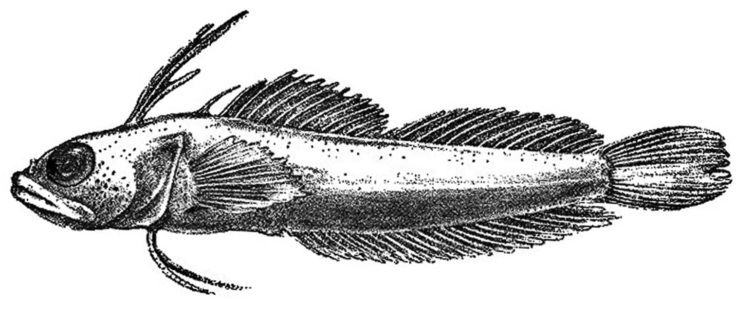 Haptoclinus apectolophus, holotype, ANSP 121251, 25.2 mm SL, male. Modified from Böhlke and Robins (1974).